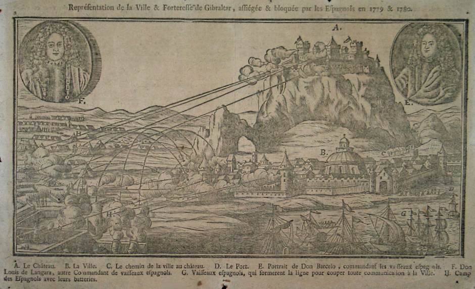 Representation of the City and Fortress of Gibraltar, bessieged & blockaded by the Spaniards in 1779 & 1780. [A.] The Castle. [B.] The City. [C.] The path from the city to the castle. [D.] The Harbour. [E.] Portrait of Don Barcelo, commanding the Spanish vessels. [F.] Don Louis* de Langara (*actually Don Juan de Langara y Huarte), other Spanish vessels Commander. [G.] Spanish vessels, which formed the line to cut all communication with the City. [H.] Camp of the Spaniards with their batteries.